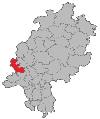 Map of the district court Limburg in Hesse